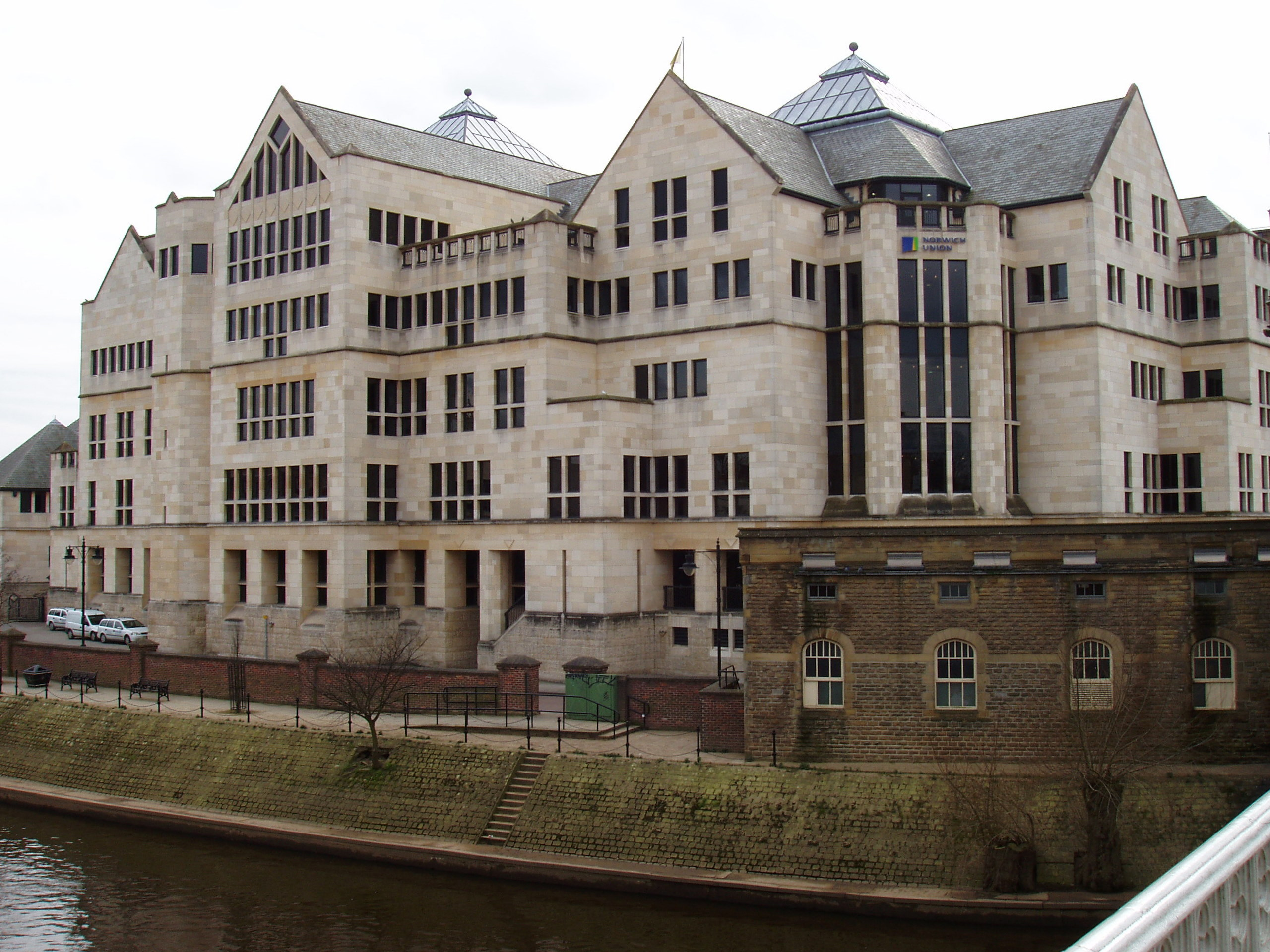 In and around York